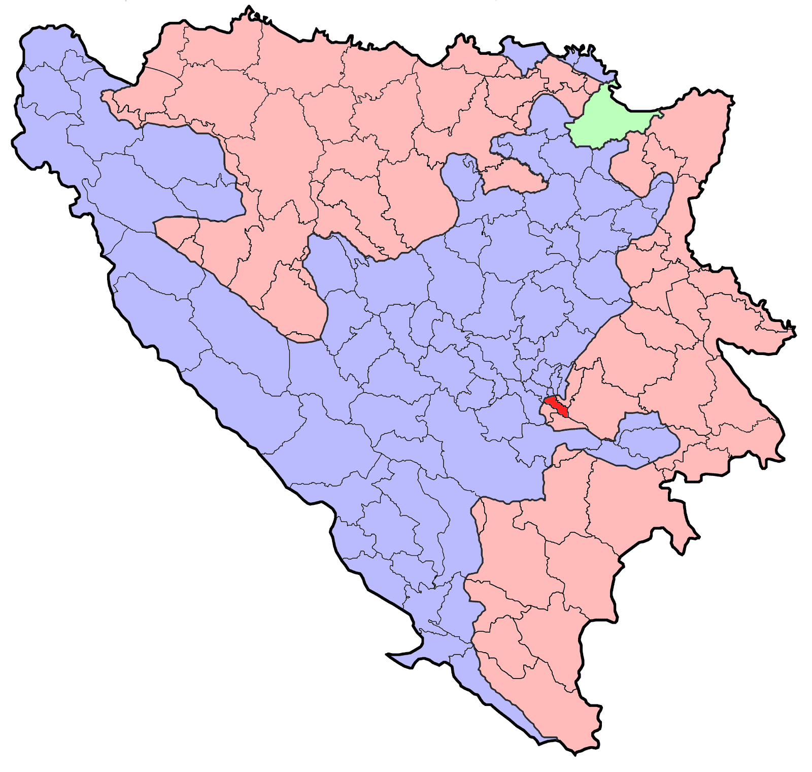 Location of Istočno Novo Sarajevo municipality in Bosnia and Herzegovina.